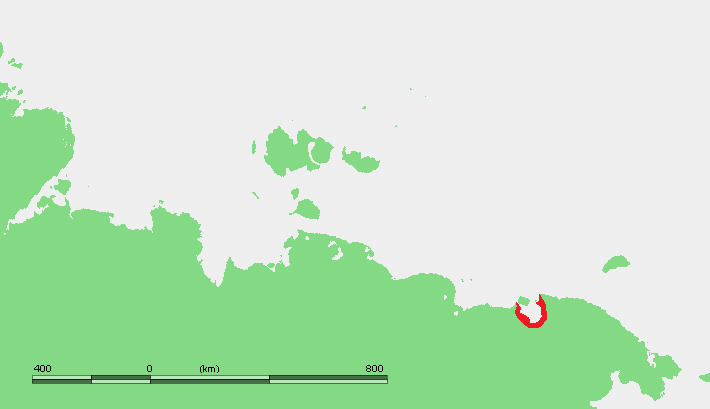 location map